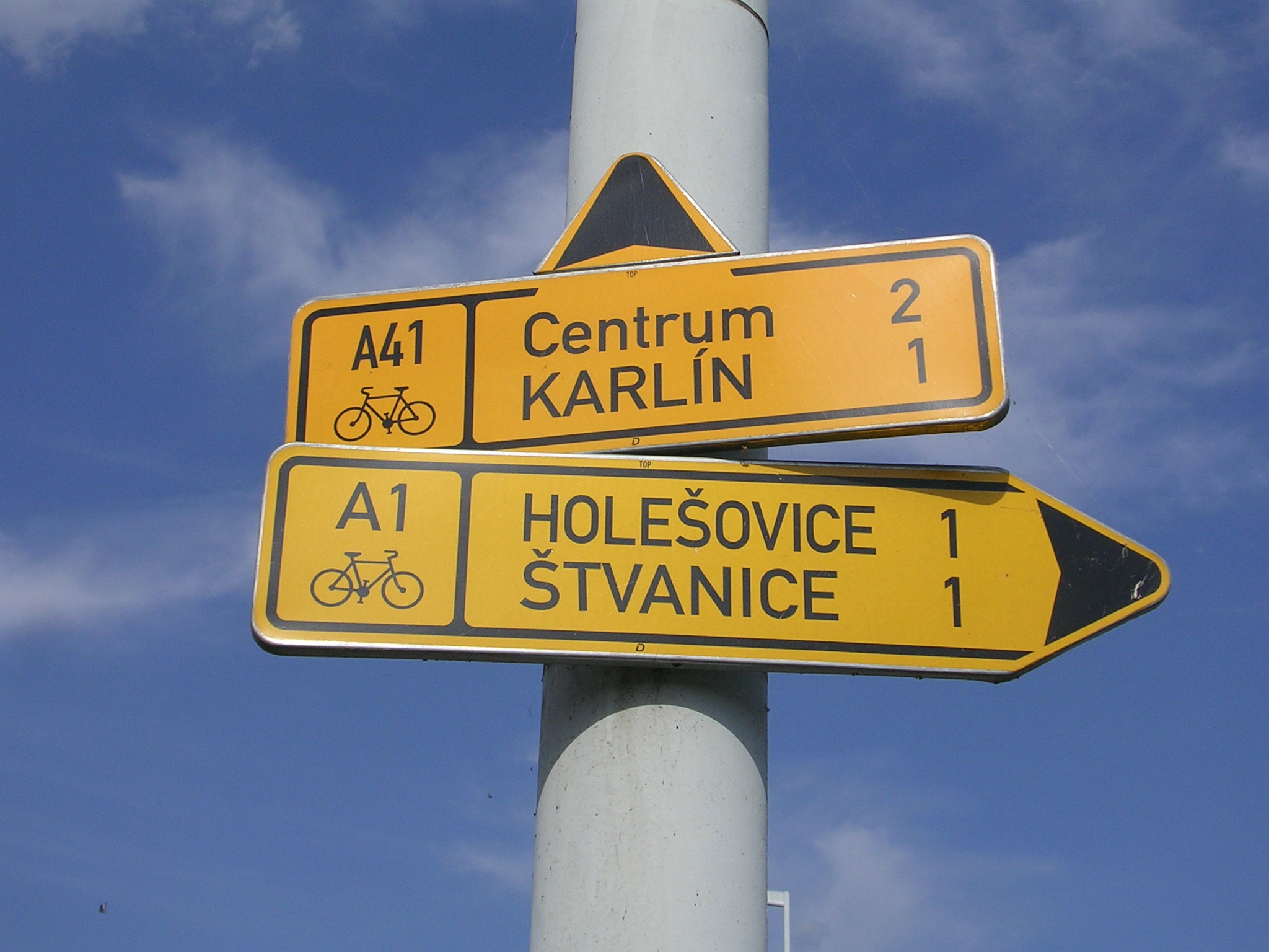 Prague, Holešovice. Cycling route and bikeway - Google Maps - Google Earth